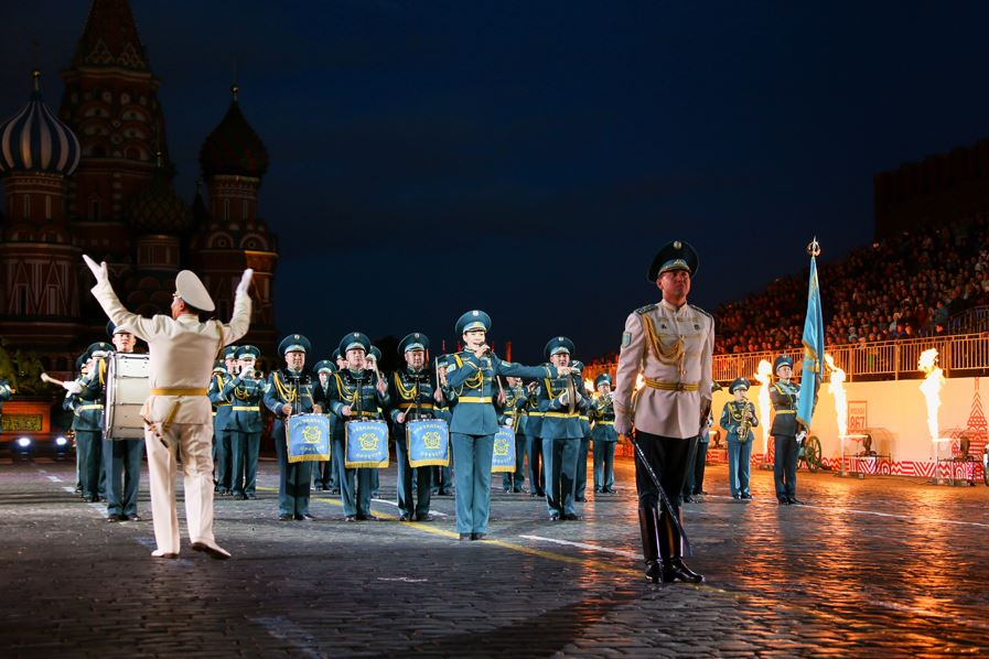 Band of the Republican Guard of Kazakhstan during the Spasskaya Tower Military Music Festival and Tattoo in 2014